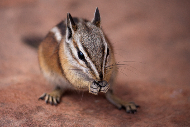 Chipmunk, probably Tamias umbrinus (Uinta chipmunk), inside the Zion Nation Park, southwest Utah. Three species of chipmunks occur there (Kays and Wilson, 2000, Mammals of North America): Tamias minimus (least chipmunk), Tamias umbrinus (Uinta chipmunk), and Tamias dorsalis (cliff chipmunk). This is not a cliff chipmunk, as that species has indistinct lateral stripes, and probably is not a least chipmunk, which has duller colors, including grayish instead of brown shoulders.